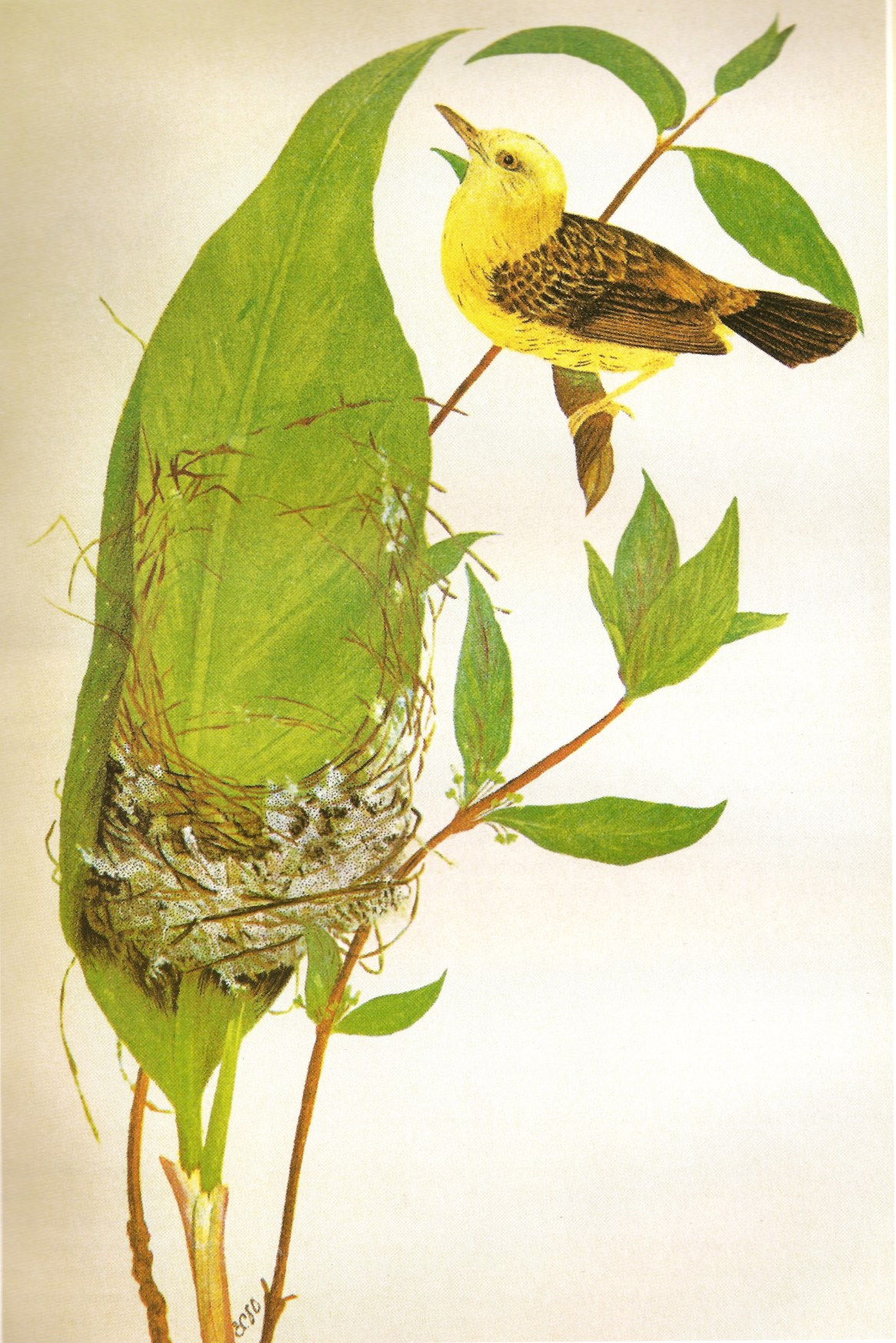 Bright-headed Cisticola (Yellow-headed Fan-tailed Warbler) Cisticola exilis tytleri Jerdon